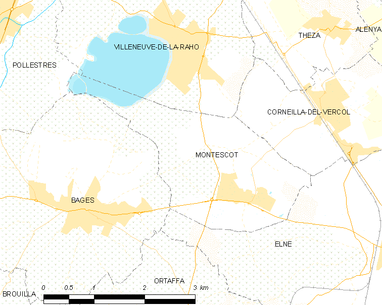 Map of French municipality